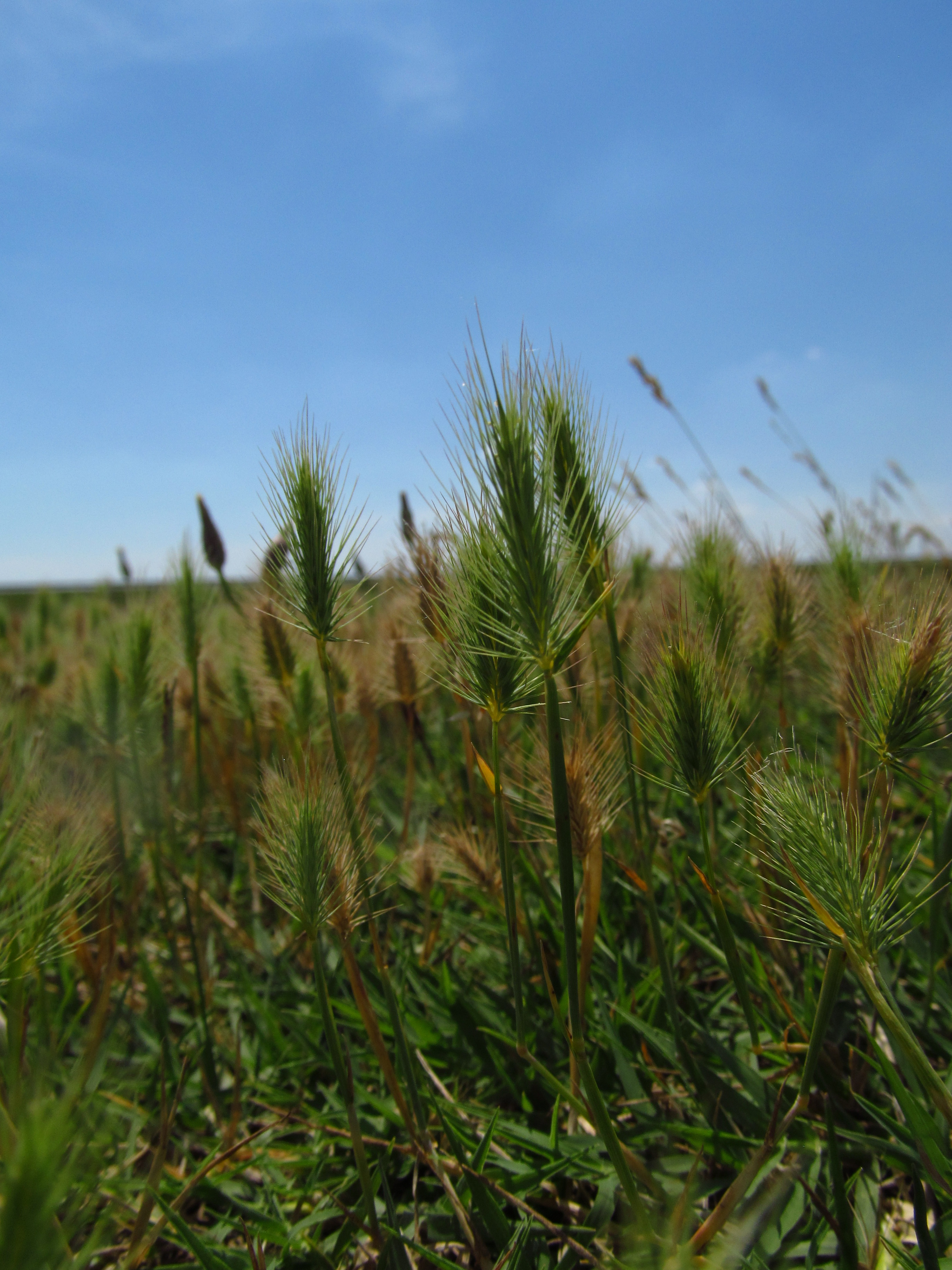 Sea barley or seaside barley